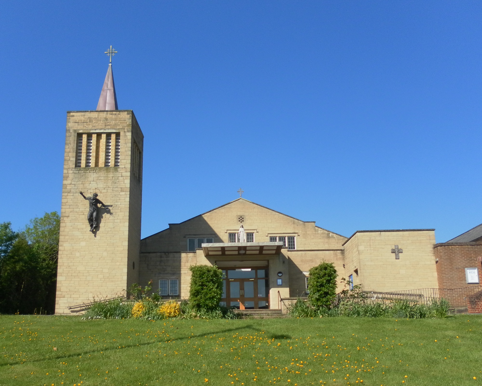 Church of Our Lady Immaculate and St Philip Neri, High Street, Uckfield, Wealden, East Sussex, England.